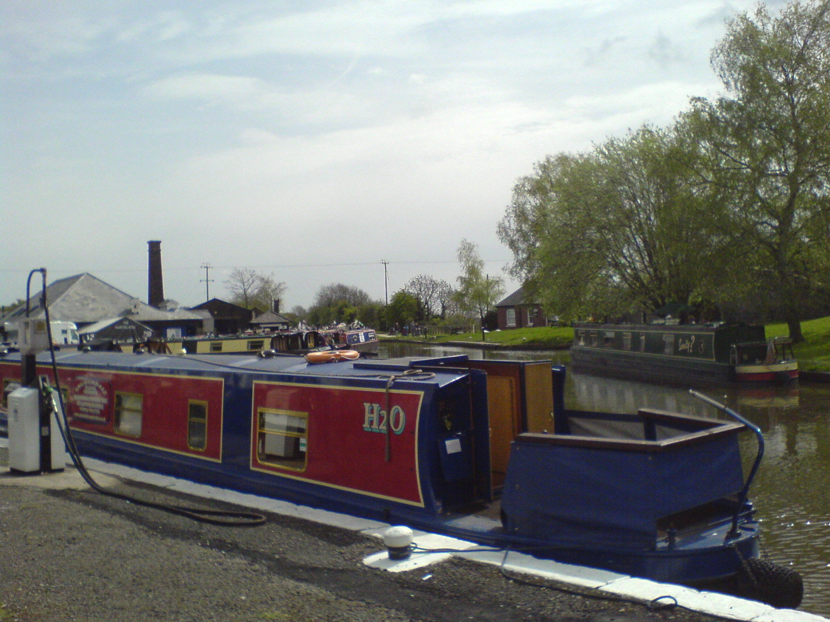 Norbury Junction, Canal Festival